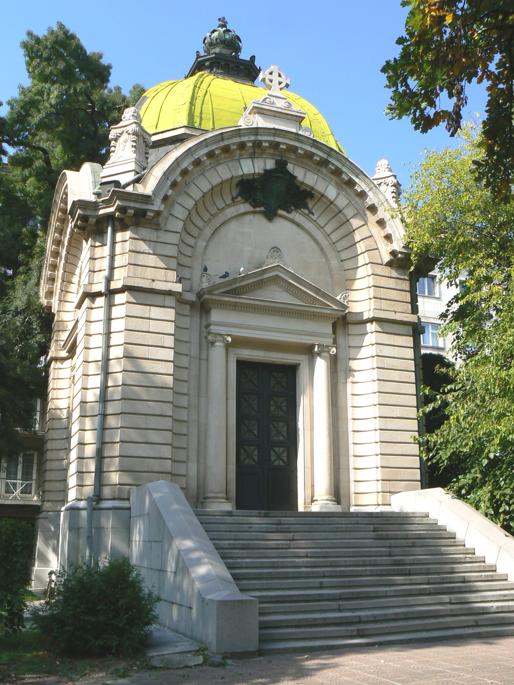 Mausoleum of Alexander Battenberg in Sofia, Bulgaria